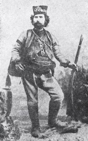 Portrait of IMARO member Stanish Nakov